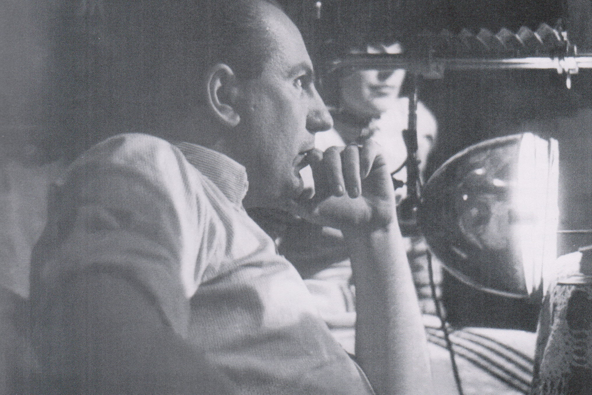 Rafael Gil - Director de Cine